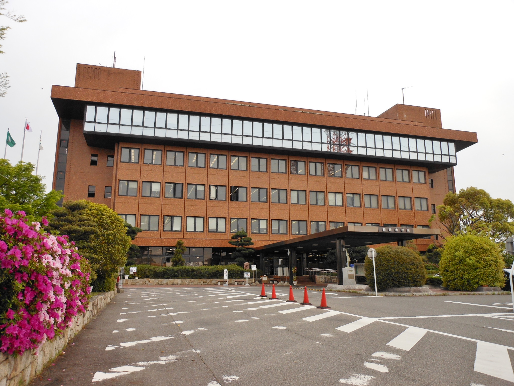 Nisshin City Hall in Nisshin, Aichi